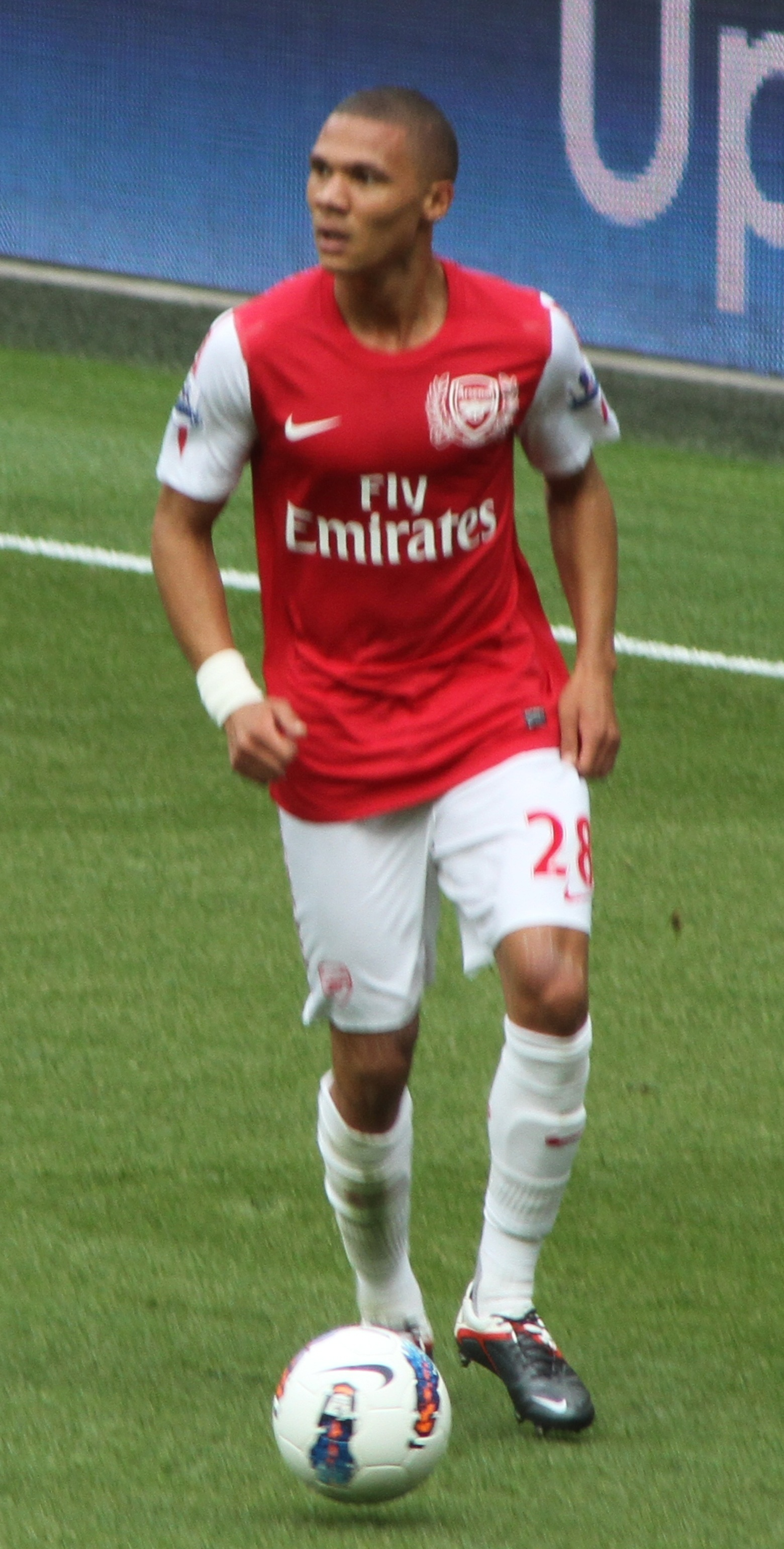 Kieran Gibbs of Arsenal, taken during the match vs. Swansea, September 10 2011